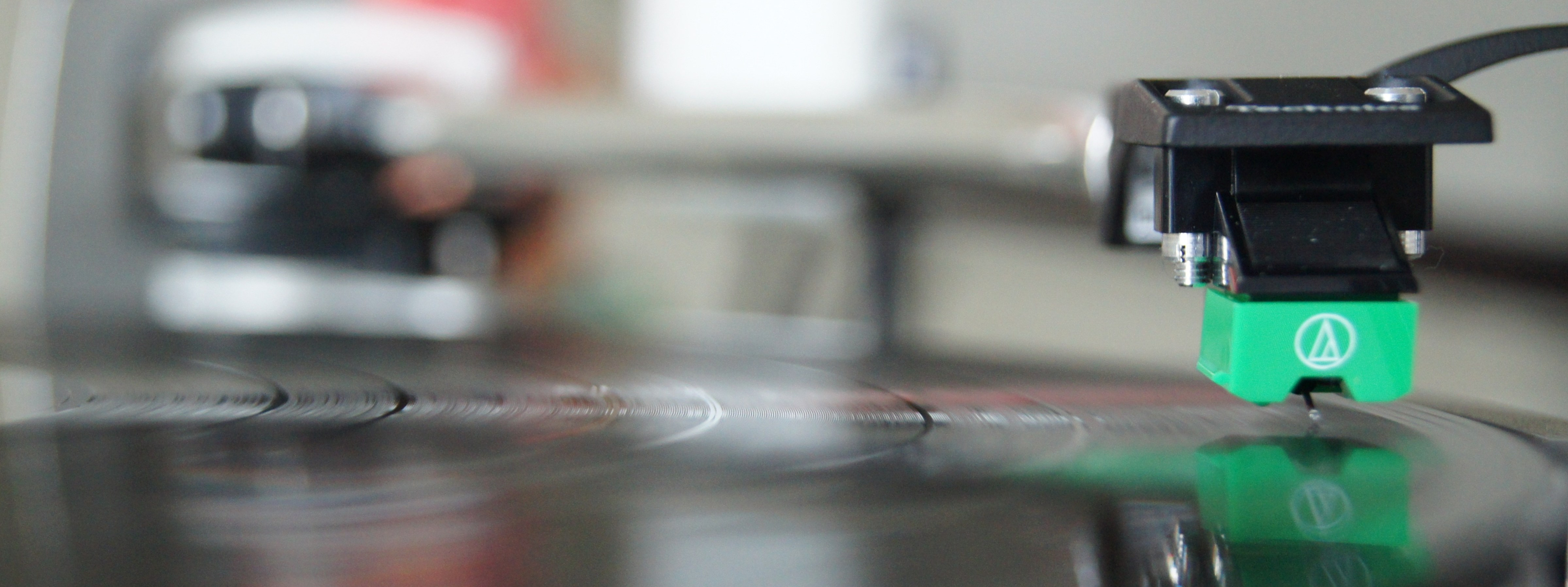 A photograph of Audio-Technica's AT-95e phono cartridge. The cartridge is mounted on a Technics headshell and is being used on a Technics SL-5100 turntable.